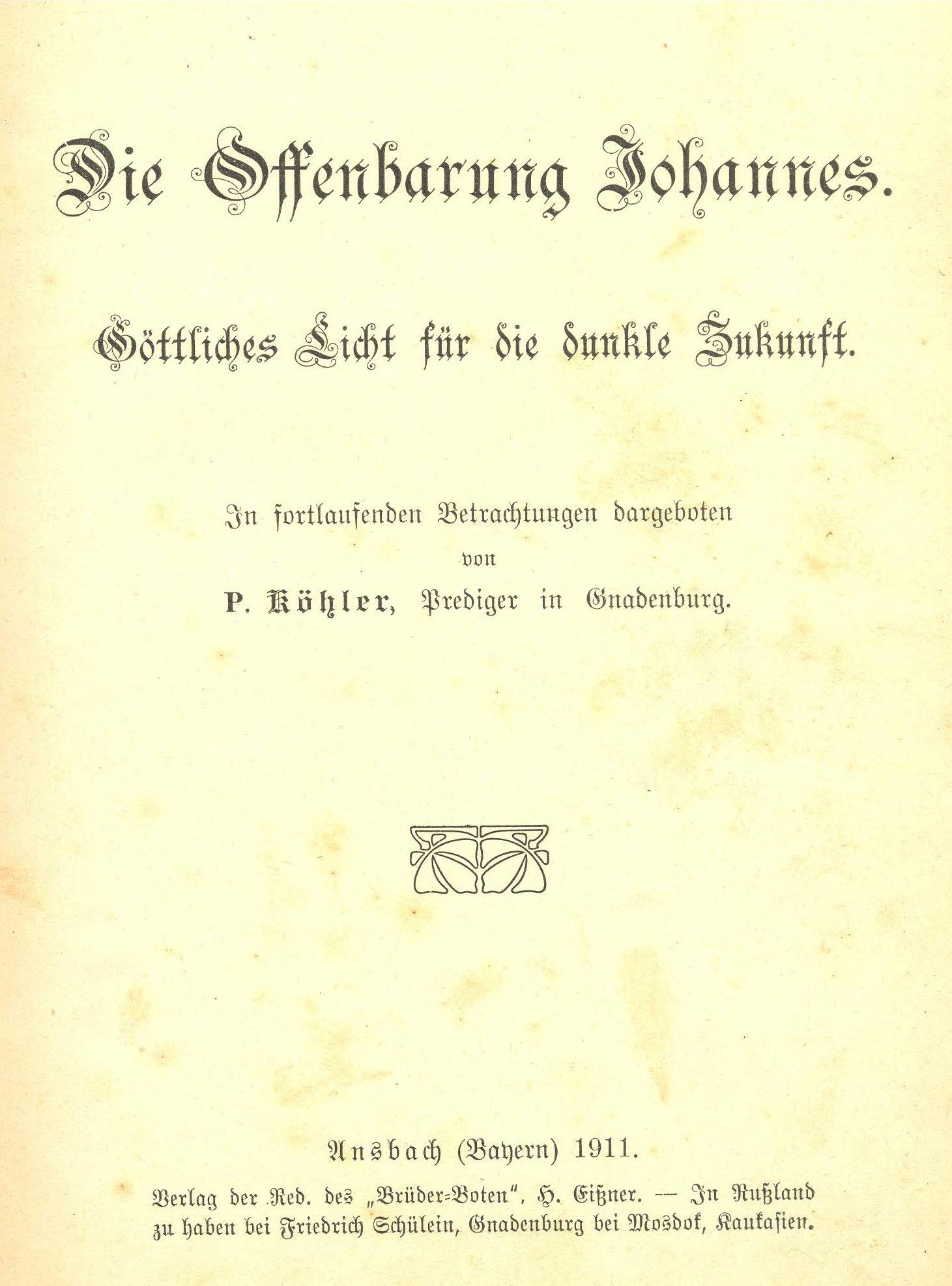 Title page of a commentary of the book of Revelation, written by Pastor Köhler from Gnadenburg, a Lutheran village in Russian Caucasus (today Winogradnoje, North Ossetia-Alania, Russia)